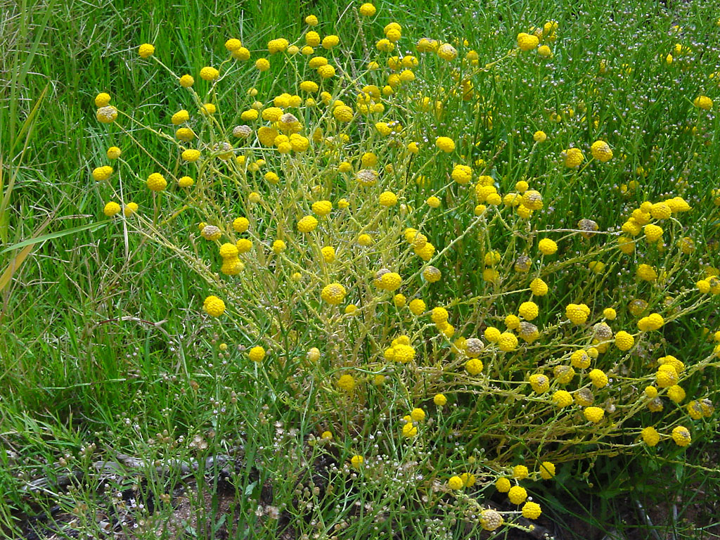 Western beauty-heads or Yellow Billybuttons. Photo taken in Australia.